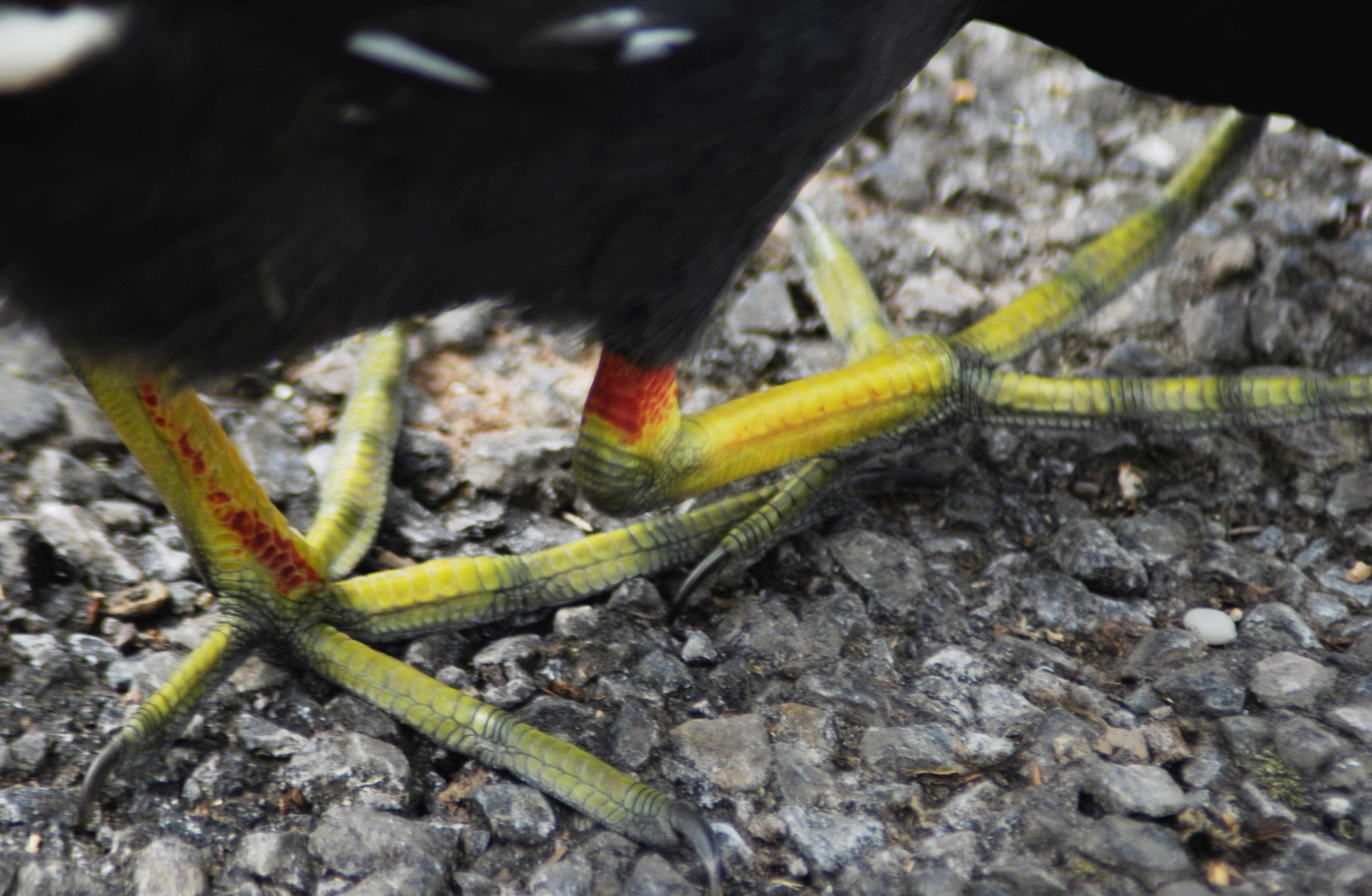 Feet of a moorhen (Gallinula chloropus) showing the length of the toes